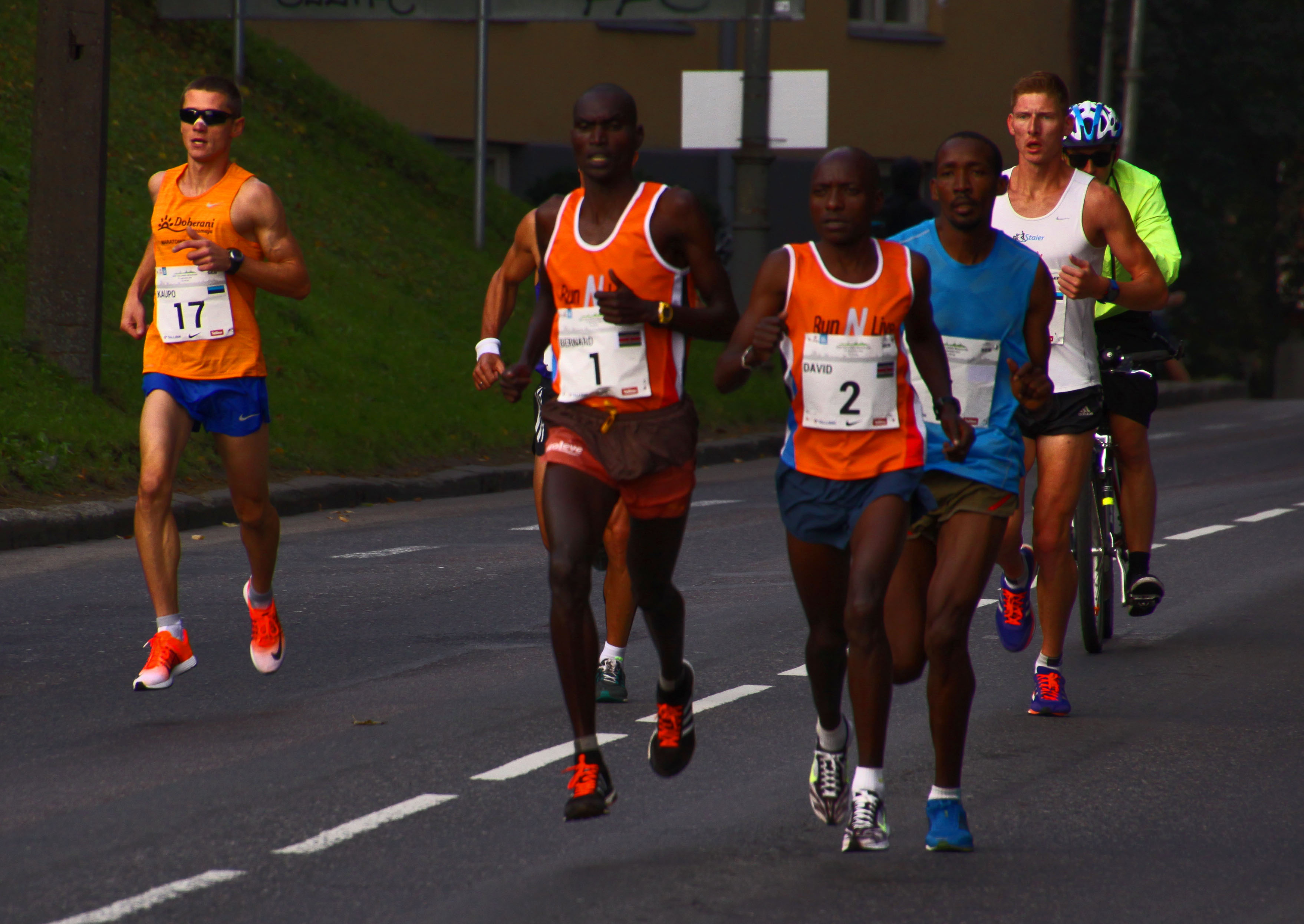 Tallinn. Watching the marathon.